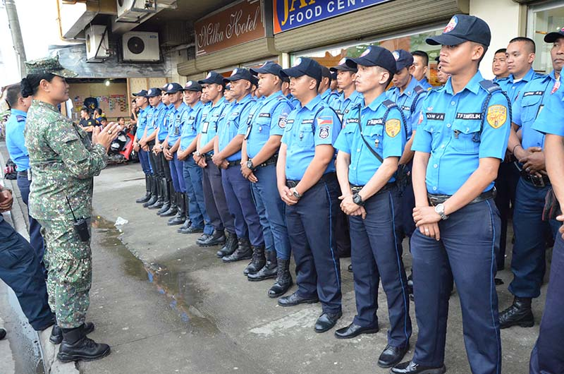 MMDA Tacloban and Palo contigent sent in Leyte to ensure security during Pope Francis' visit in Leyte.